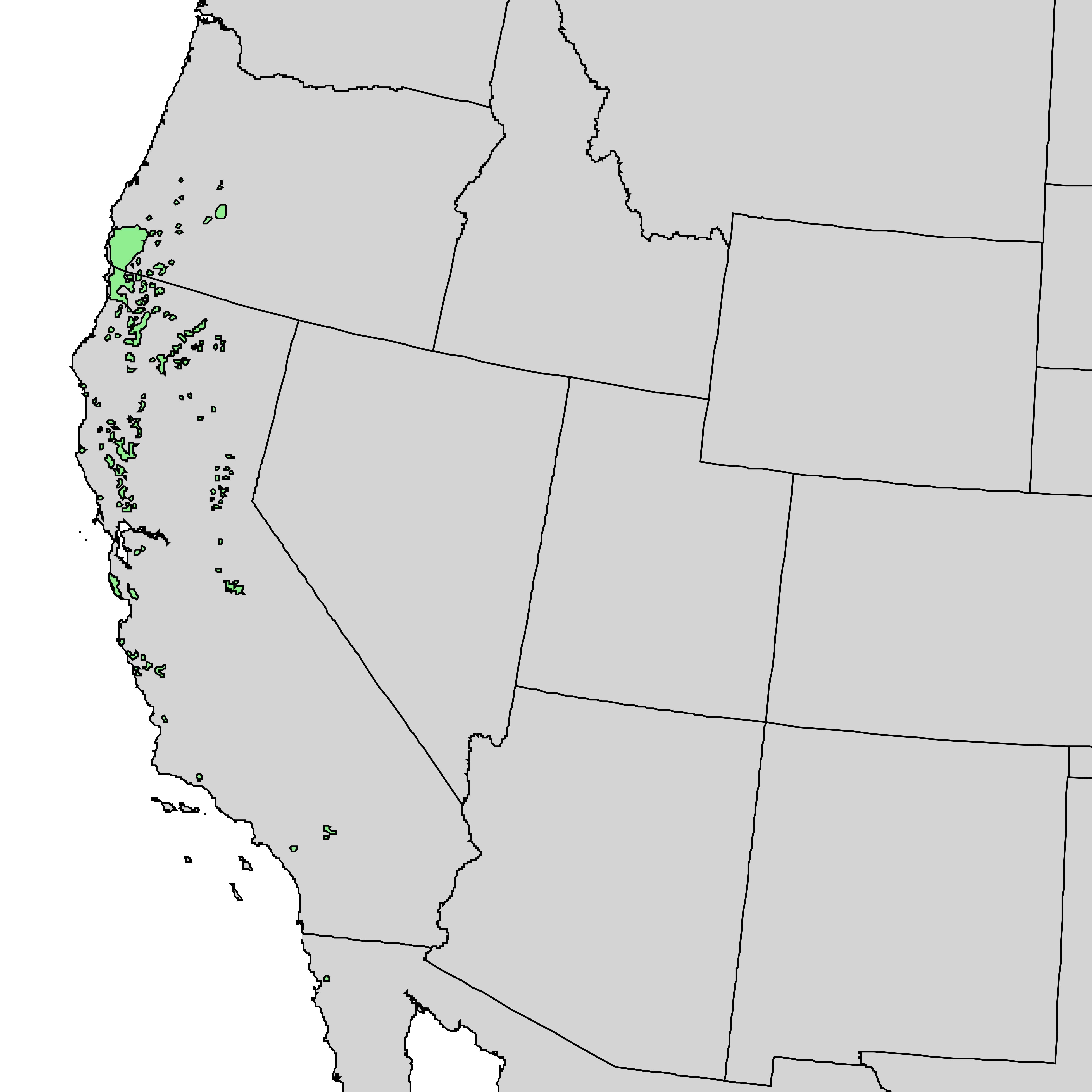 Natural distribution map for Pinus attenuata